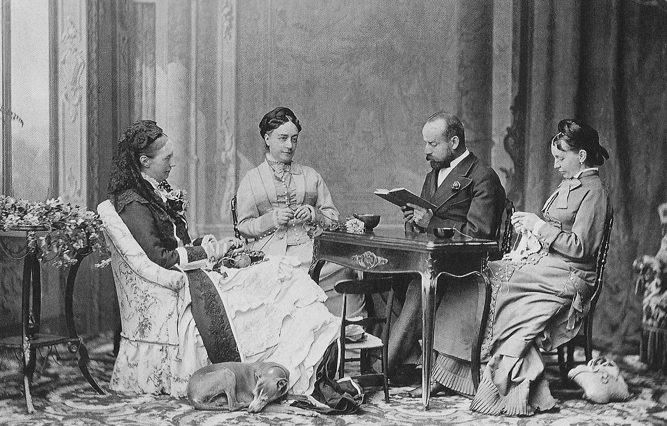 Queen Olga in the arm chair, two ladies-in-waiting and a reader, probably Charles Woodcock. Photograph taken in Nizza.